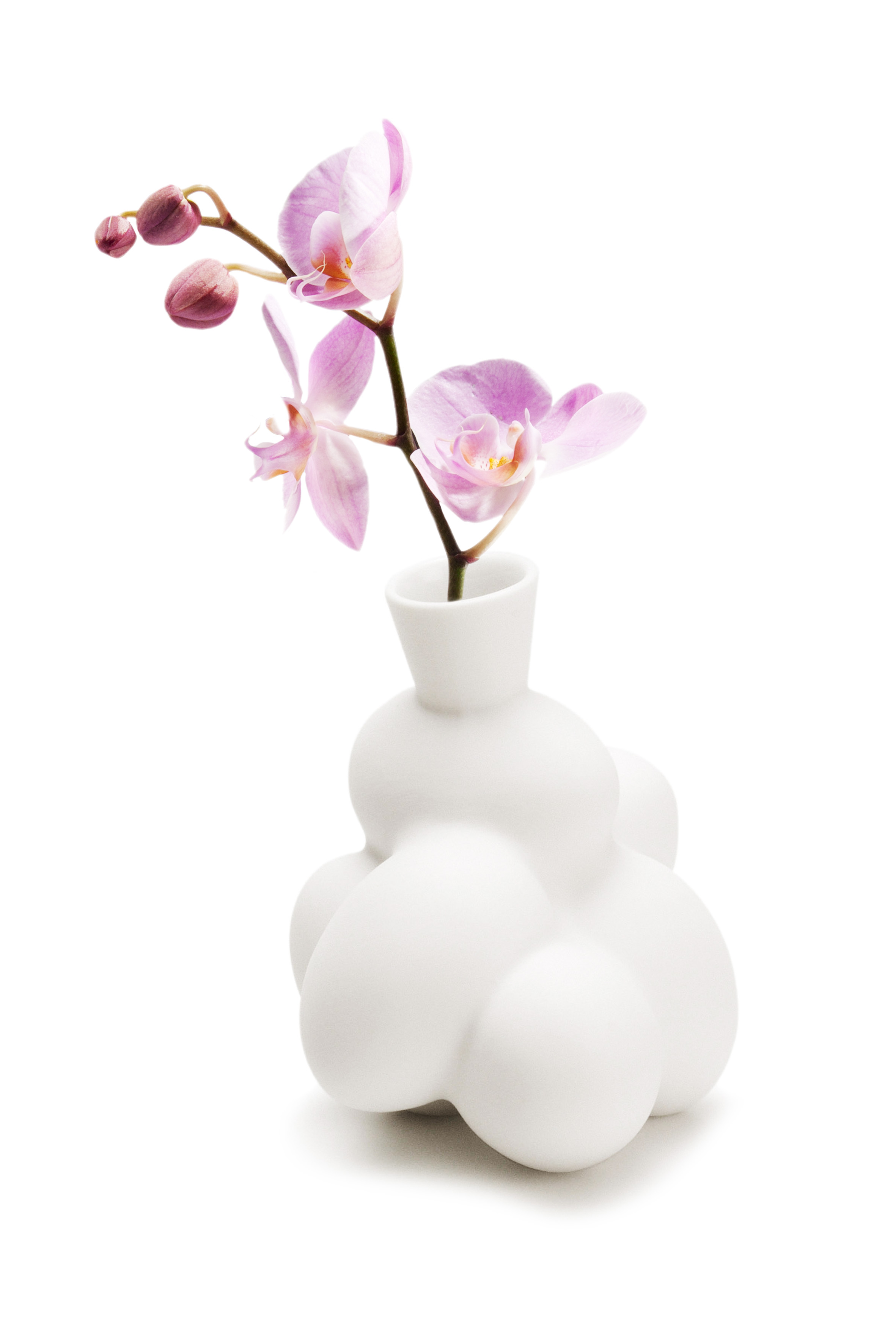 Egg Vase